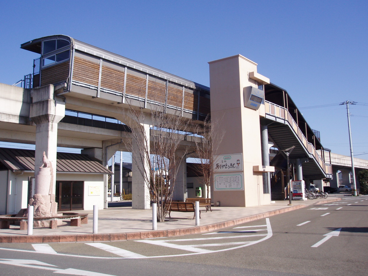 Tosa Kuroshio Railway Gomen･Nahari Line Gomenmachi Station 土佐くろしお鉄道 ごめん・なはり線 後免町駅 駅舎